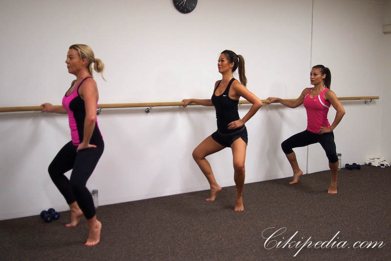 three people at a barre class